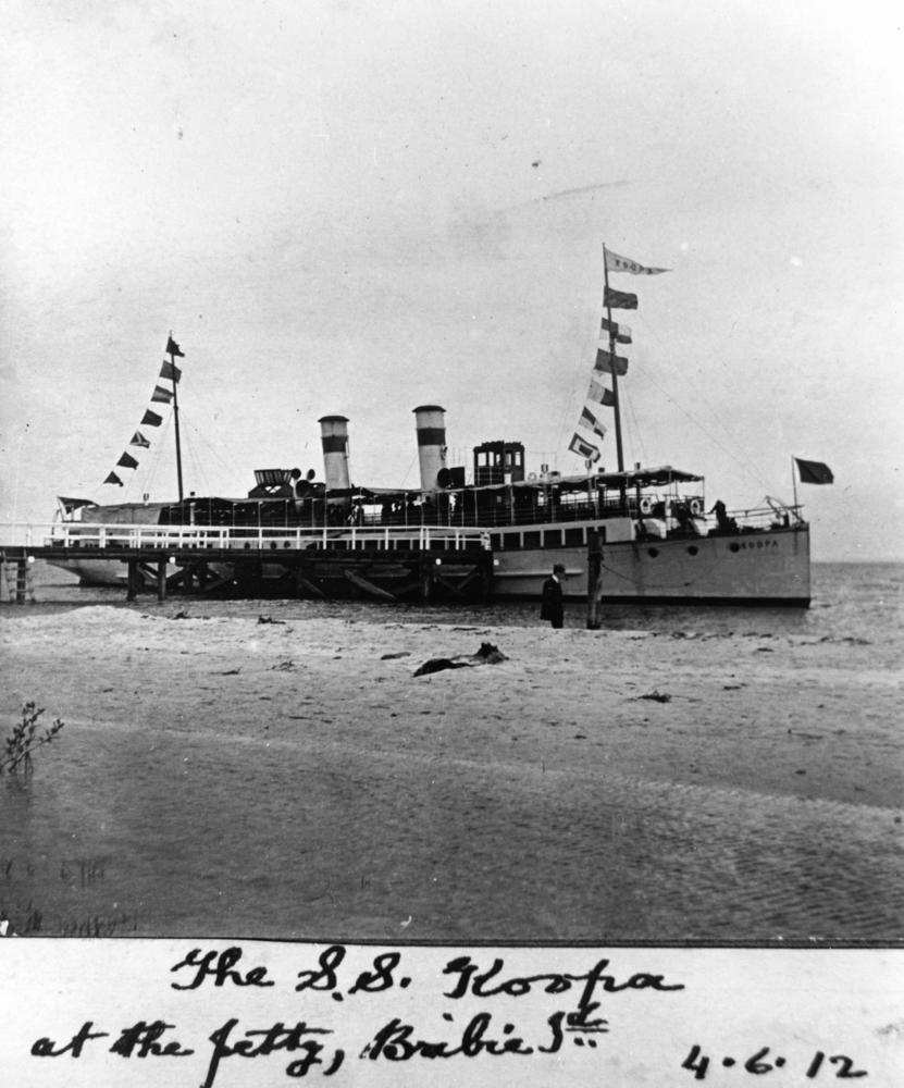 Passenger ferry S.S. Koopa at the jetty at Bribie Island, Queensland, 1912 The passenger ferry Koopa operated before World War II in Moreton Bay, Queensland, running pleasure cruises. In 1942 Koopa was commissioned to the Royal Australian Navy where she was used as a depot ship for combined operations training at Toorbul, Queensland, and later went to the Milne Bay area of New Guinea. Koopa was returned to her owners in January 1947.